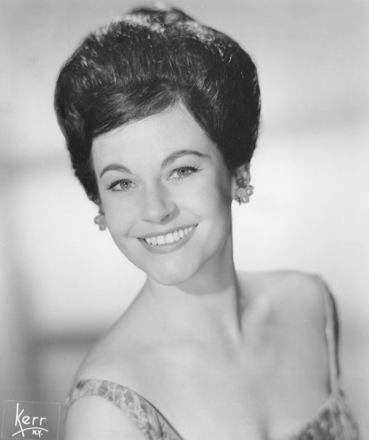 Photo of vocalist Joy Clements.